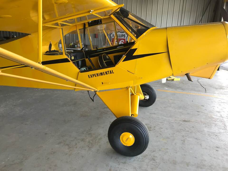 N121WP is a fun plane to fly. Getting in and out of a Cub is not for old men though unless you are flexible and trim.